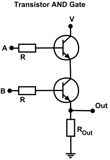 diagram of a transistor AND gate. Reference